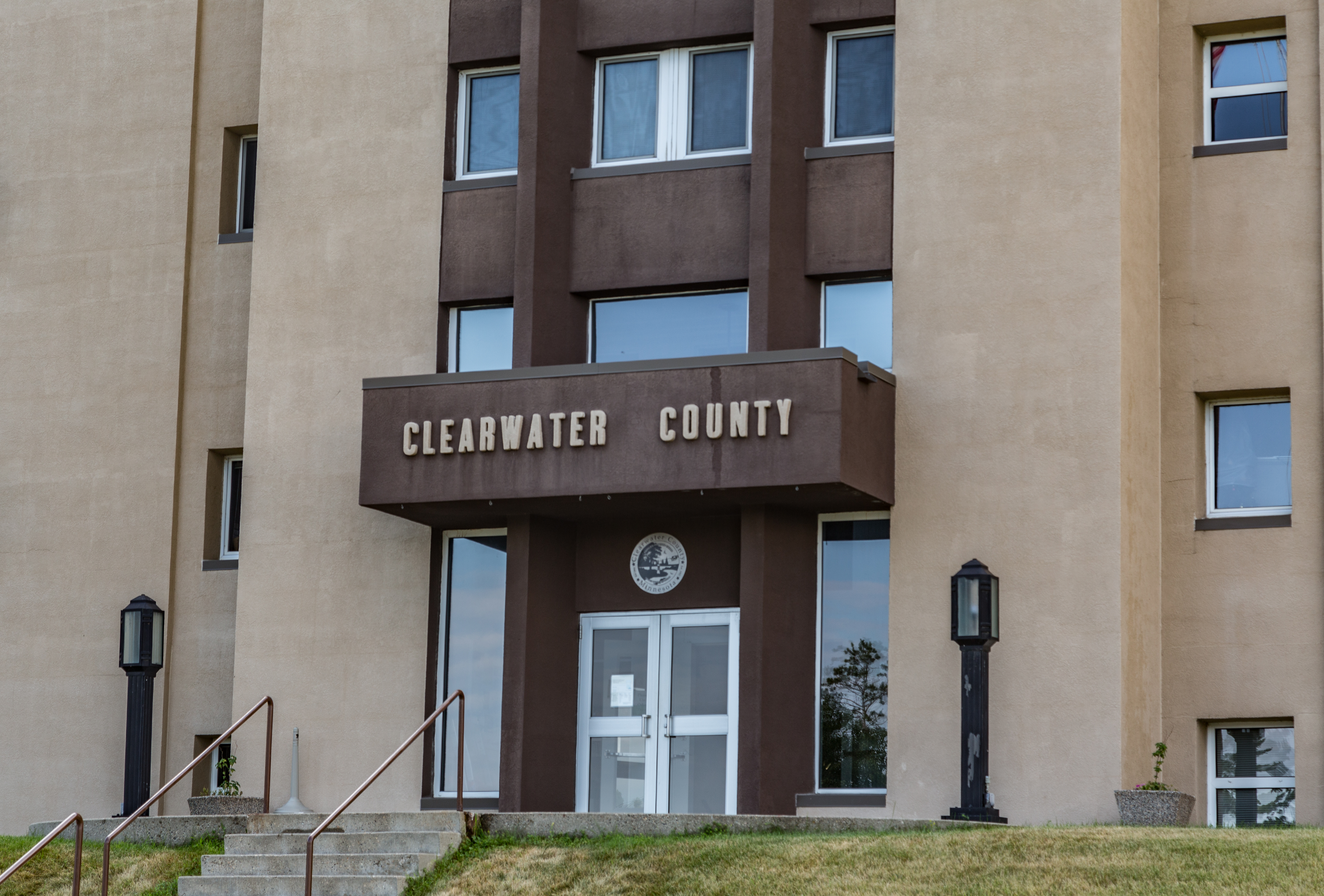 The Clearwater County building at 213 Main Avenue North in Bagley, Minnesota.